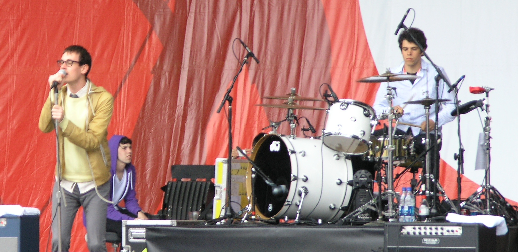 Taken during MyCokeFest at Centennial Olympic Park in Atlanta